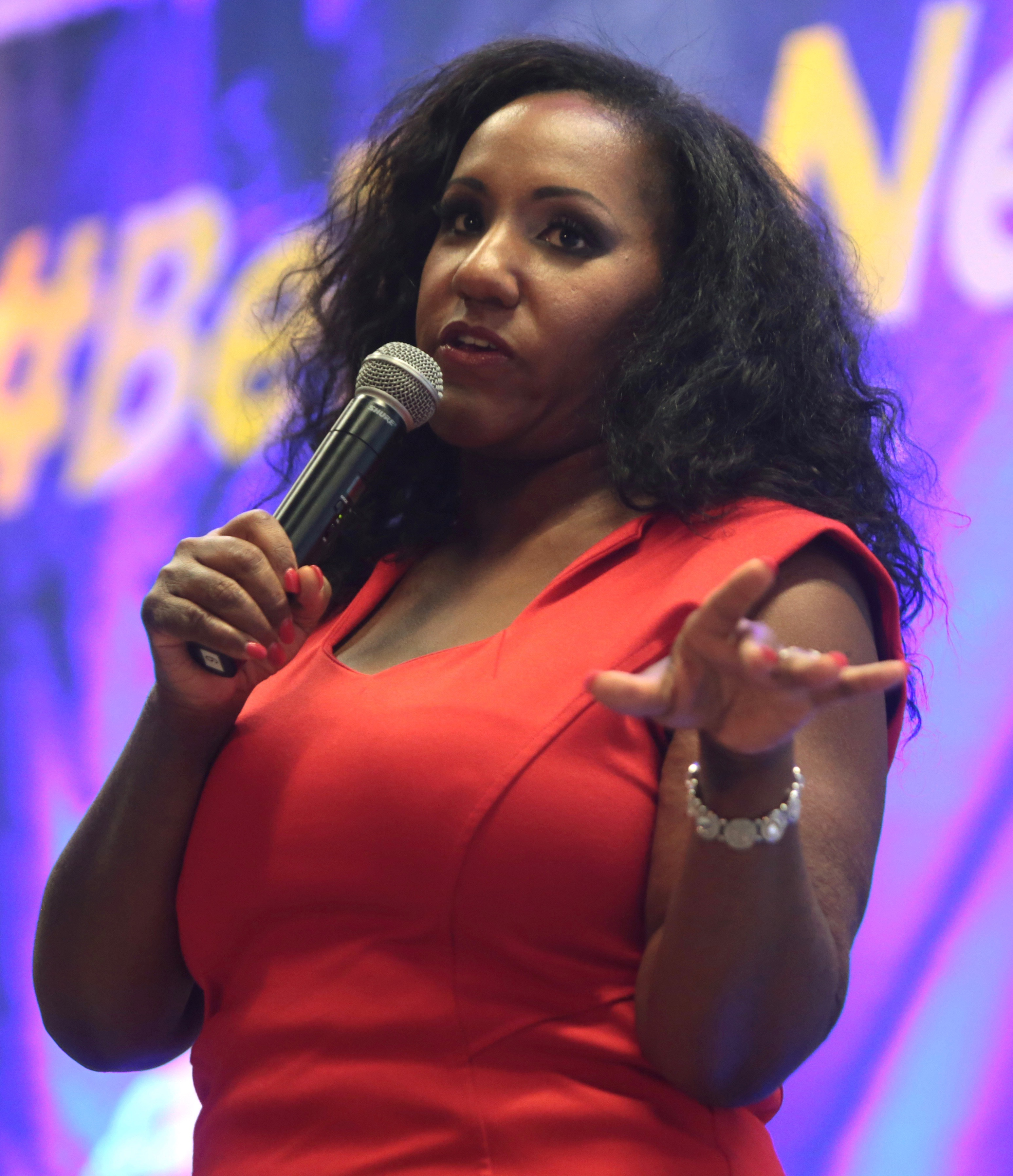 Karith Foster speaking at the 2016 Young Americans for Liberty National Convention at the Catholic University of America in Washington, D.C.